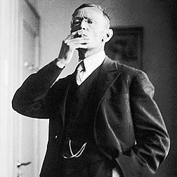 German author Hermann Hesse